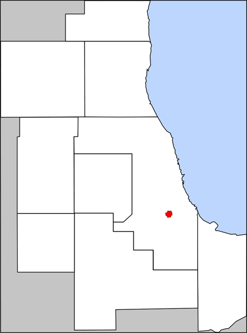 Location of Evergreen Park in Chicagoland. Created with Macromedia Fireworks 4 PNG-8 Websnap adaptive color palette 228 colors